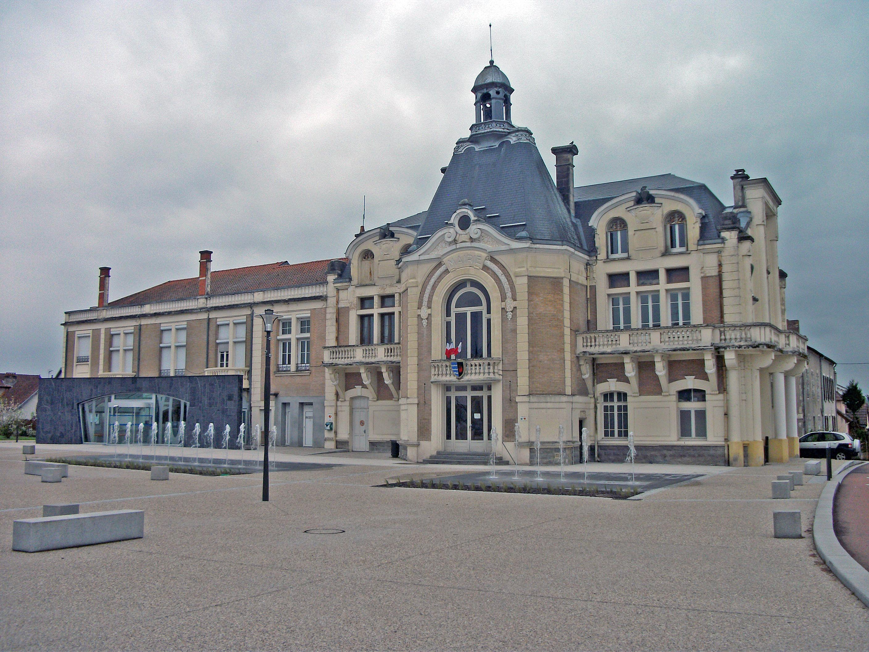 Town hall of Saint-Yorre, Auvergne, France